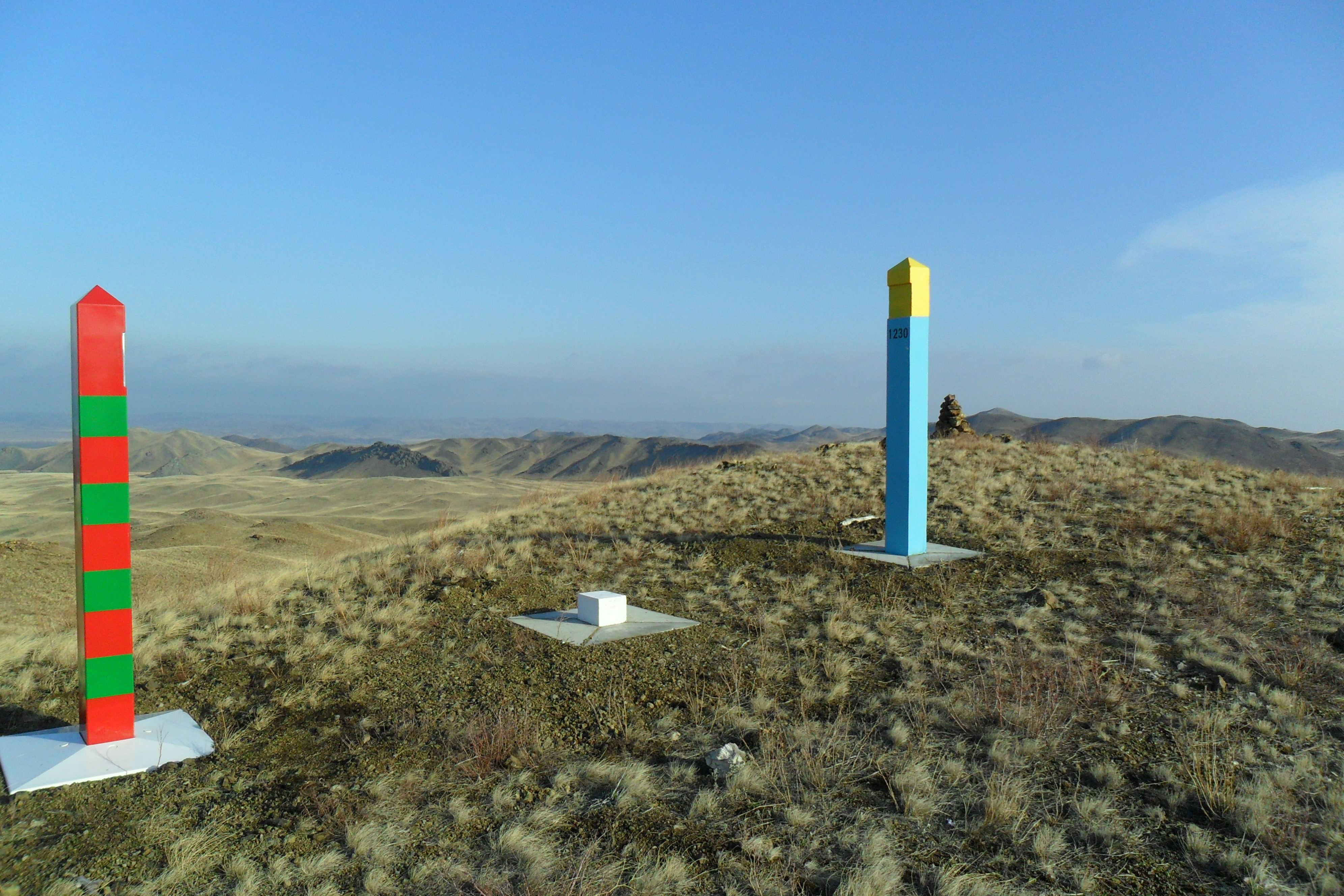 Border sign at the Russia-Kazakhstan border line. View from the Russian Federation side.